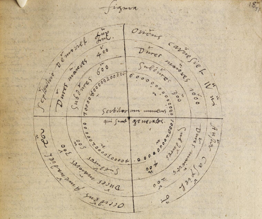 Peniarth MS 423D is a volume of astrological texts written in Latin. It is a transcript, dated 1591, of Steganographia by Johannes Trithemius (1462-1516), which was originally written in the late 1490s. Steganography is the act of writing in a secret code. This version is in the hand of Dr John Dee, Queen Elizabeth I's ‘favourite philosopher’.